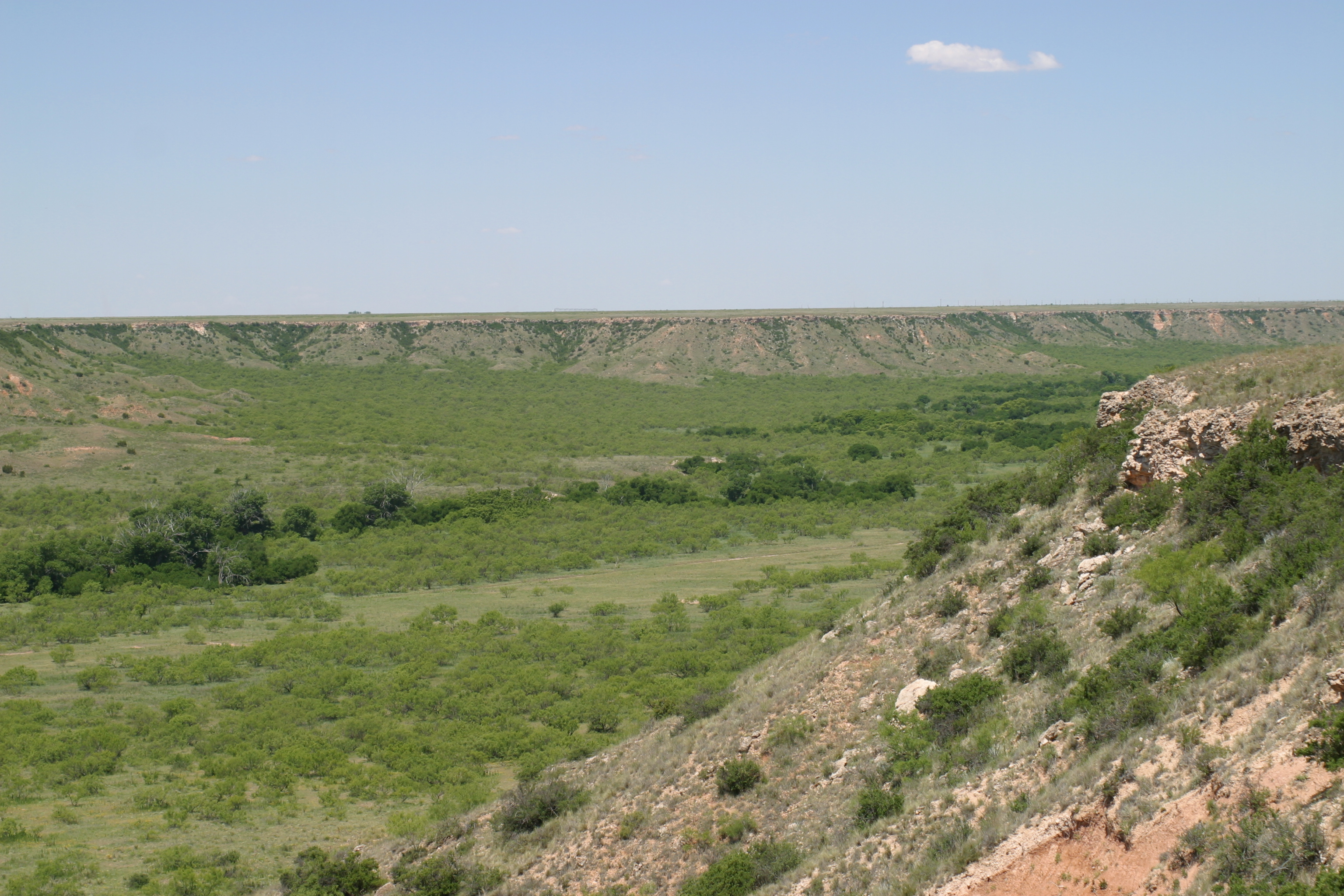 Blanco Canyon in Crosby County, Texas. Looking west from eastern edge of canyon. Path of the White River is marked by the growth of large cottonwoods that tower above the smaller mesquite trees.